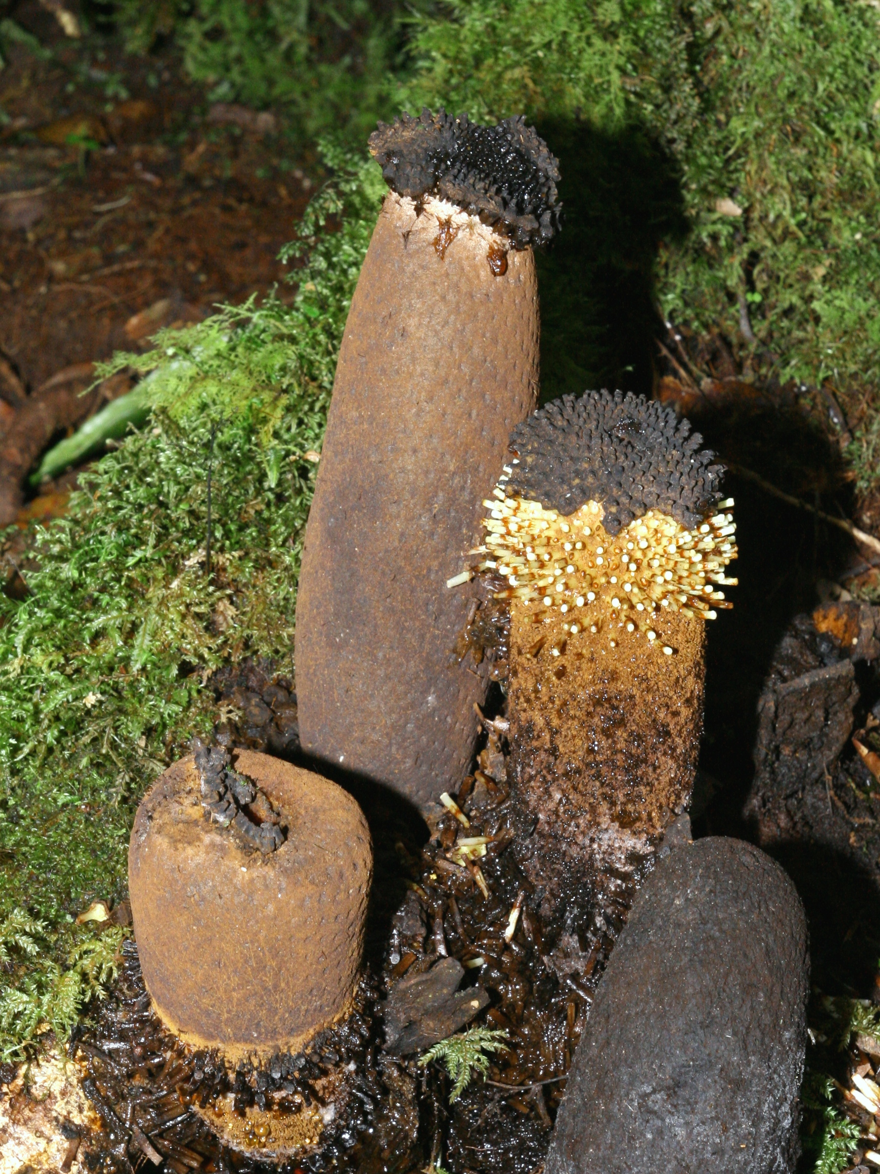 Rhopalocnemis phalloides, Gunung Kemiri, n. Sumatera